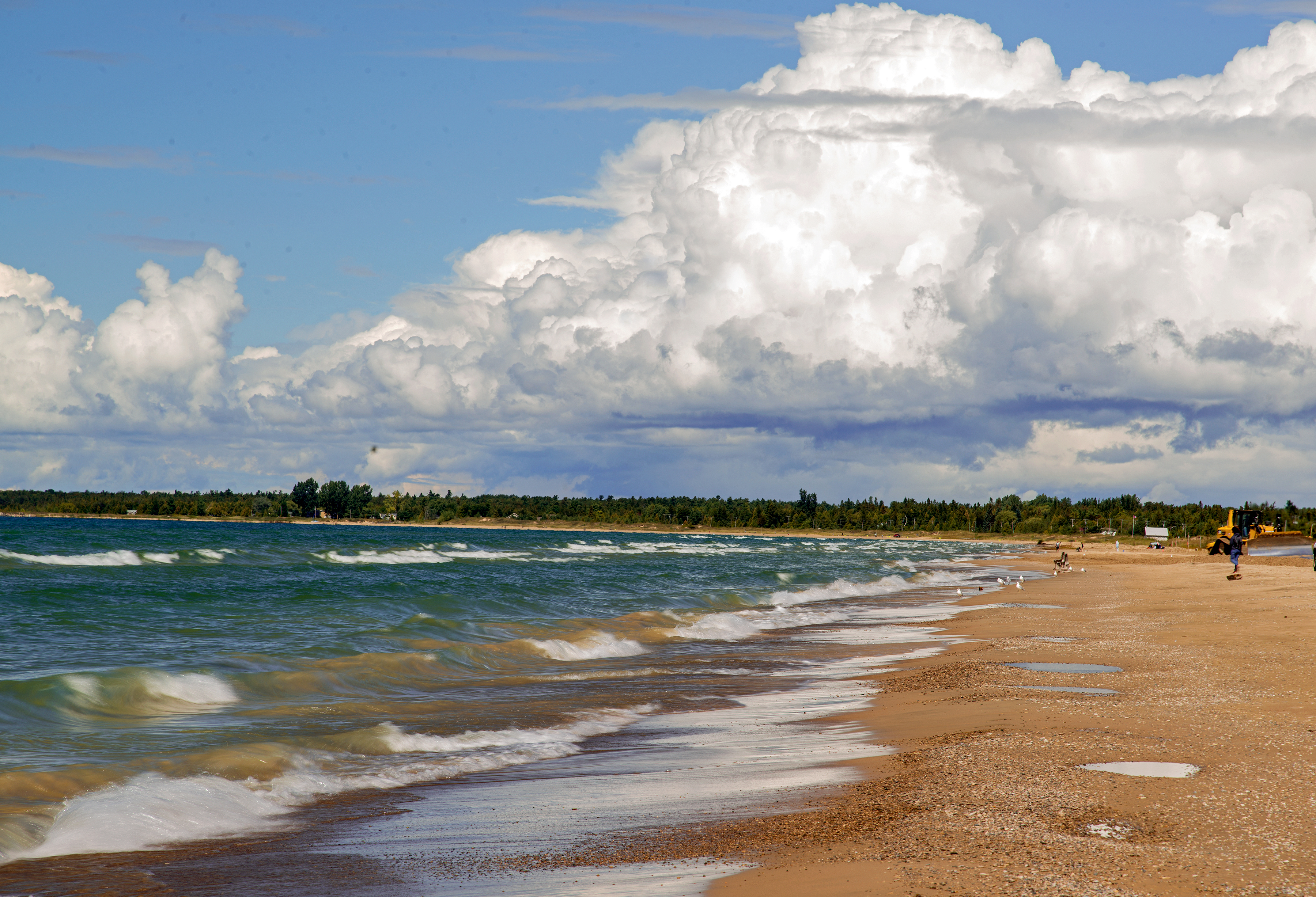 Sauble Beach on a quiet day in September